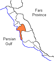 Tangestan County in Map of Bushehr Province of Iran.